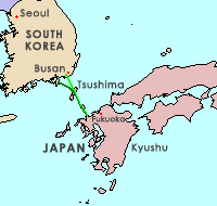 ファイル:WorldMap ja.png に由来するこの画像は、元の画像の作成者や改変者によって、それぞれが創作した部分の第三者に対する利用許諾範囲が異なります。しかし、いずれの者も、それぞれの著作権表示が適切に行われていれば、利用許諾についてGFDLが要求しない条件を付していません。そのため、この画像の二次的著作物をGFDLのもとで利用することが可能です Note: this file was duly licenced under GFDL at the Japanese Wikipedia as per the following below. The GFDL licence is thus transferable to any other Wikipedia. original file name: WorldMap ja.png File: WorldMap ja.png This image is derived from, or modified by the creator of the original image with a different range of third-party license for each part of creation. However, the one who, if done correctly and copyright notice, the GFDL license is not required by the attached no conditions. Therefore, the derivative works of this GFDL images can be used under. (machine translation, original text follows:) ファイル: に由来するこの画像は、元の画像の作成者や改変者によって、それぞれが創作した部分の第三者に対する利用許諾範囲が異なります。しかし、いずれの者も、それぞれの著作権表示が適切に行われていれば、利用許諾についてGFDLが要求しない条件を付していません。そのため、この画像の二次的著作物をGFDLのもとで利用することが可能です。